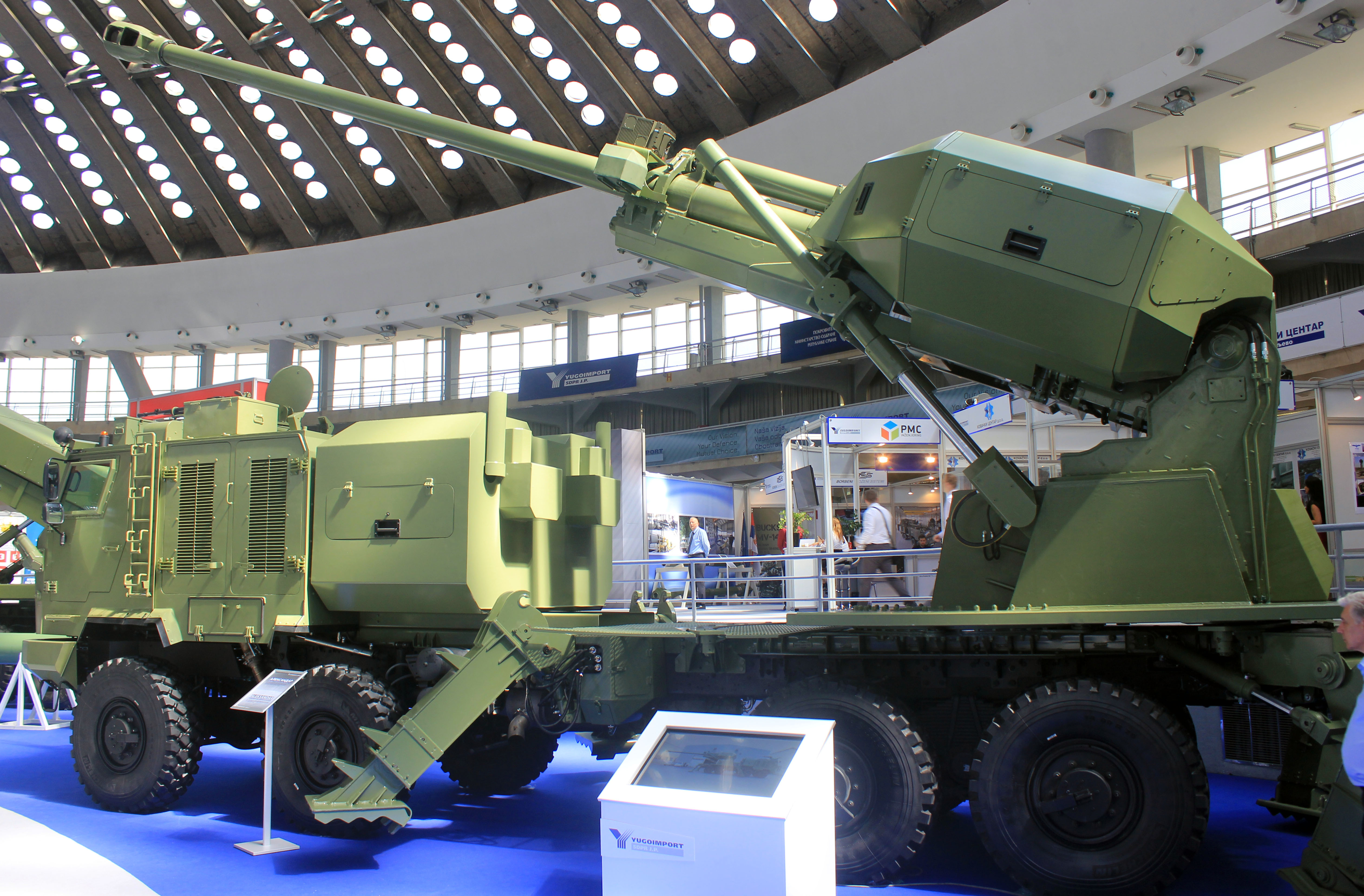 New 155mm SP Aleksandar developed by Yugoimport SDPR on display at "Partner 2017" military fair.